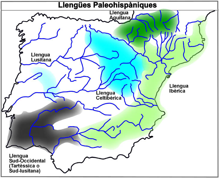 Paleohispanic Languages Map.